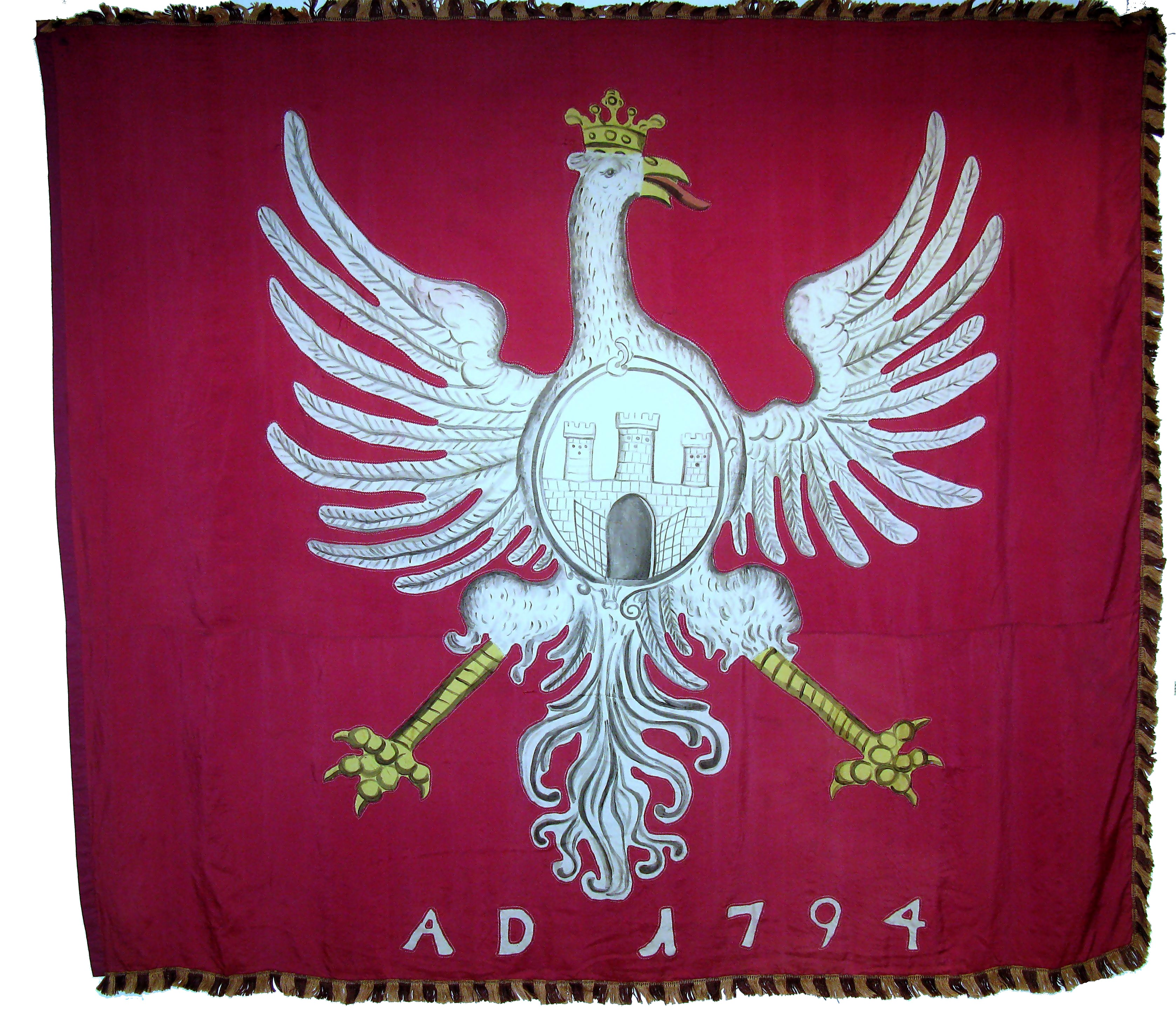 Banner of Kraków during Kościuszko Uprising